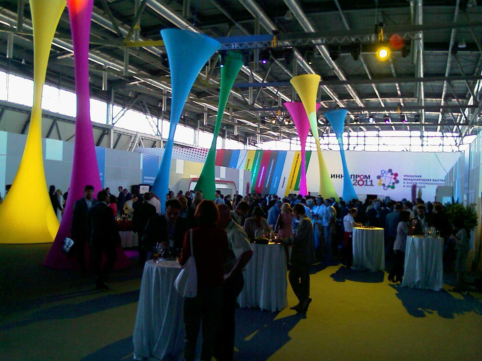 Innoprom-2011